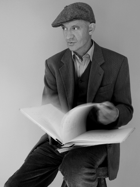 The German poet, philosophical essayist, performance artist Natias Neutert, 2010. Foto: Nic Frechen